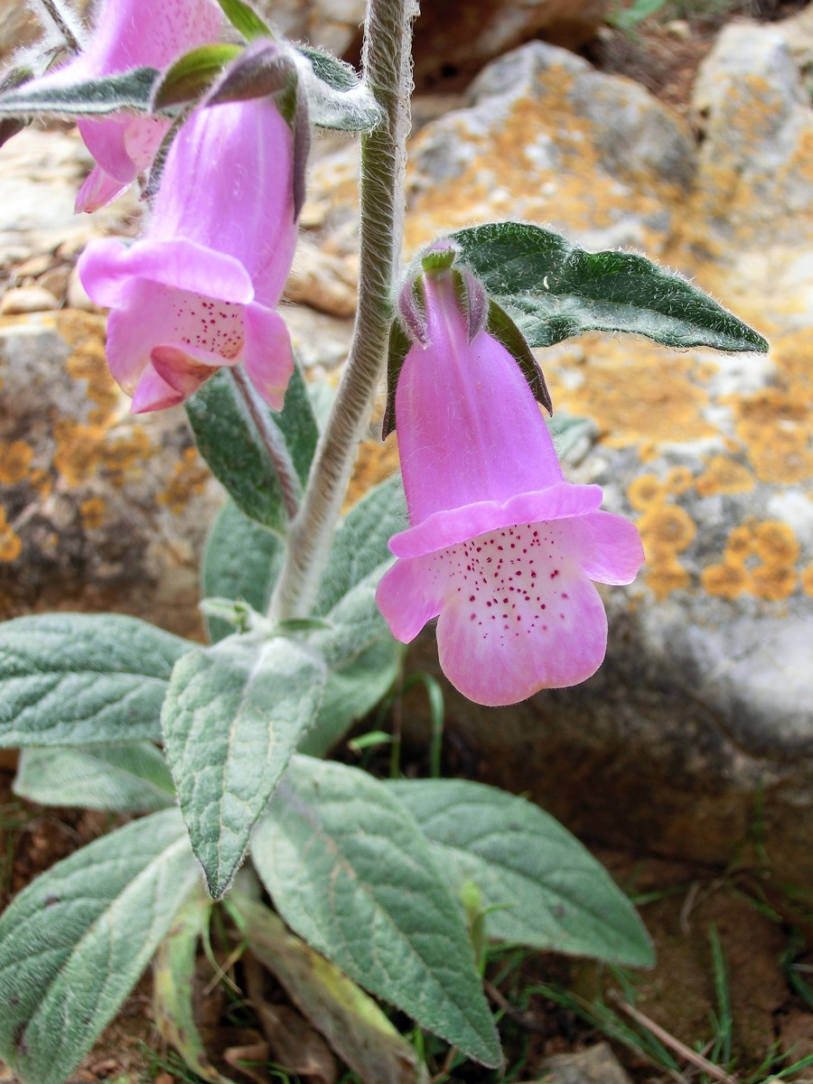 Digitalis minor, Flowers. Mallorca, Formentor peninsula, Cala Murta.